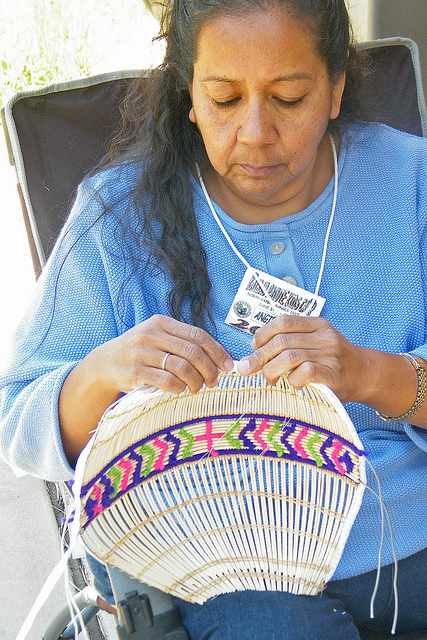 Kaibab Band of Paiutes Tribe member Angie Bulletts weaves a traditional Paiute cradleboard during the kids campout at Jacob Lake, Ariz. on June 3 and 4 (Credit Photo to: U.S. Forest Service, Southwestern Region, Kaibab National Forest).